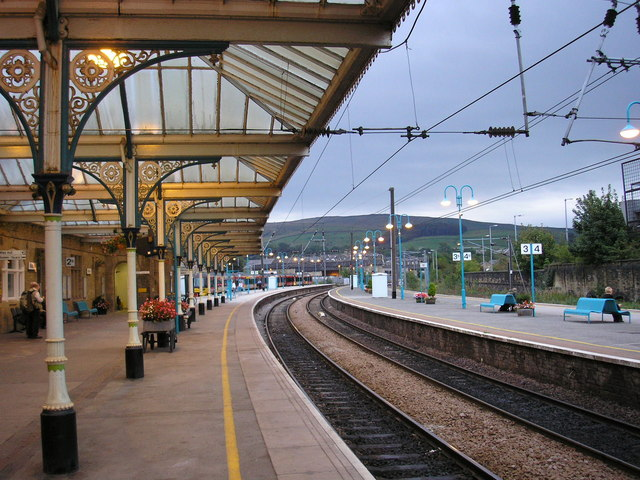 Skipton Station